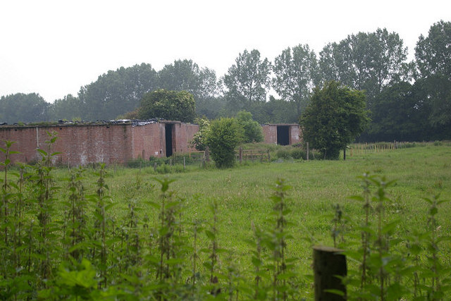 Military training area near Shrawardine This area, known as Nesscliffe Training Area, is owned by the army, but used by RAF helicopters, It is also used for cattle farming.